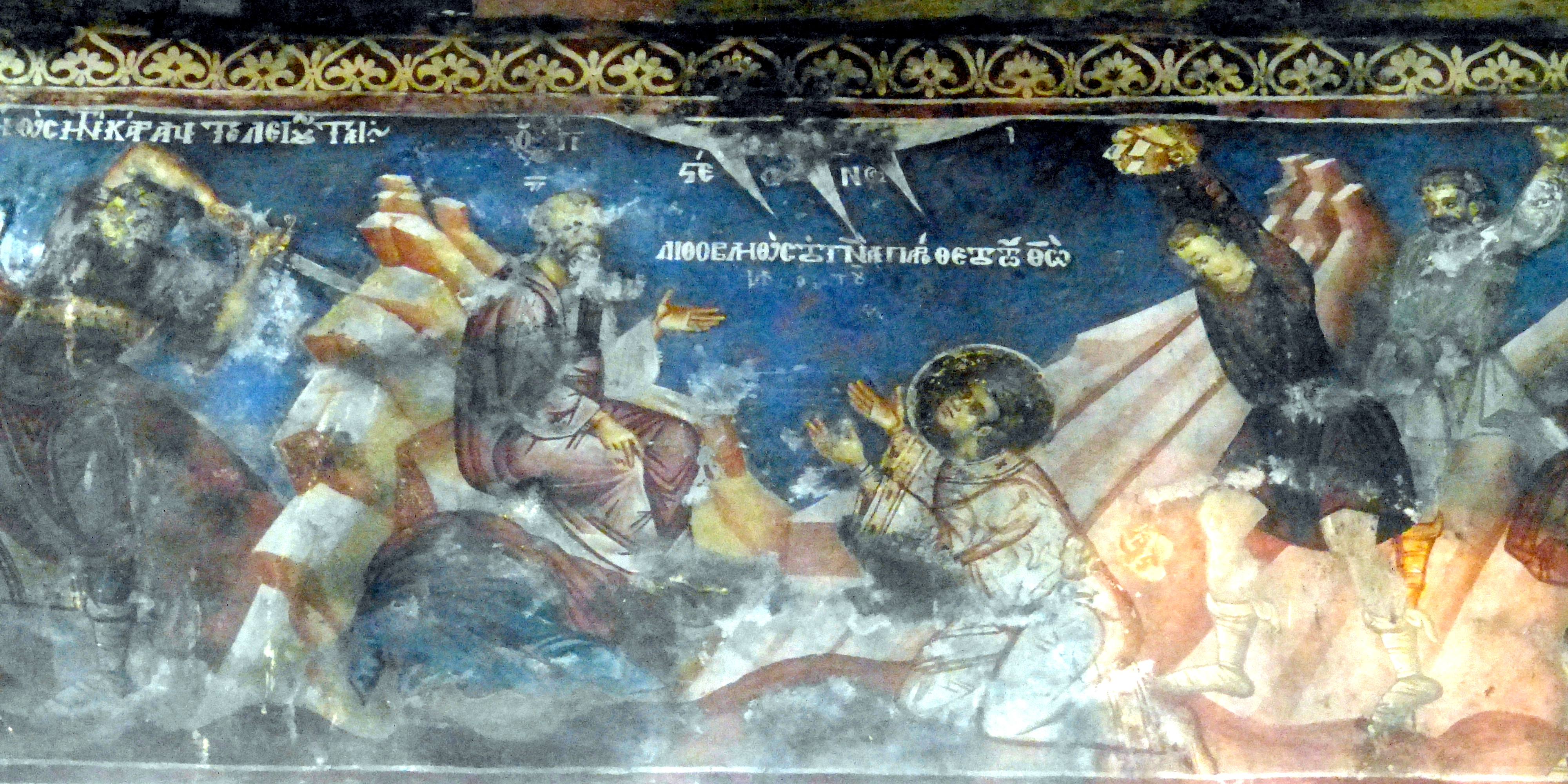 Voskopojë ( Albania ). Saint Nicholas church ( 1722 ) - Interior: Fresco ( 1726 ) of the stoning of Saint Stephen by David Selenica.